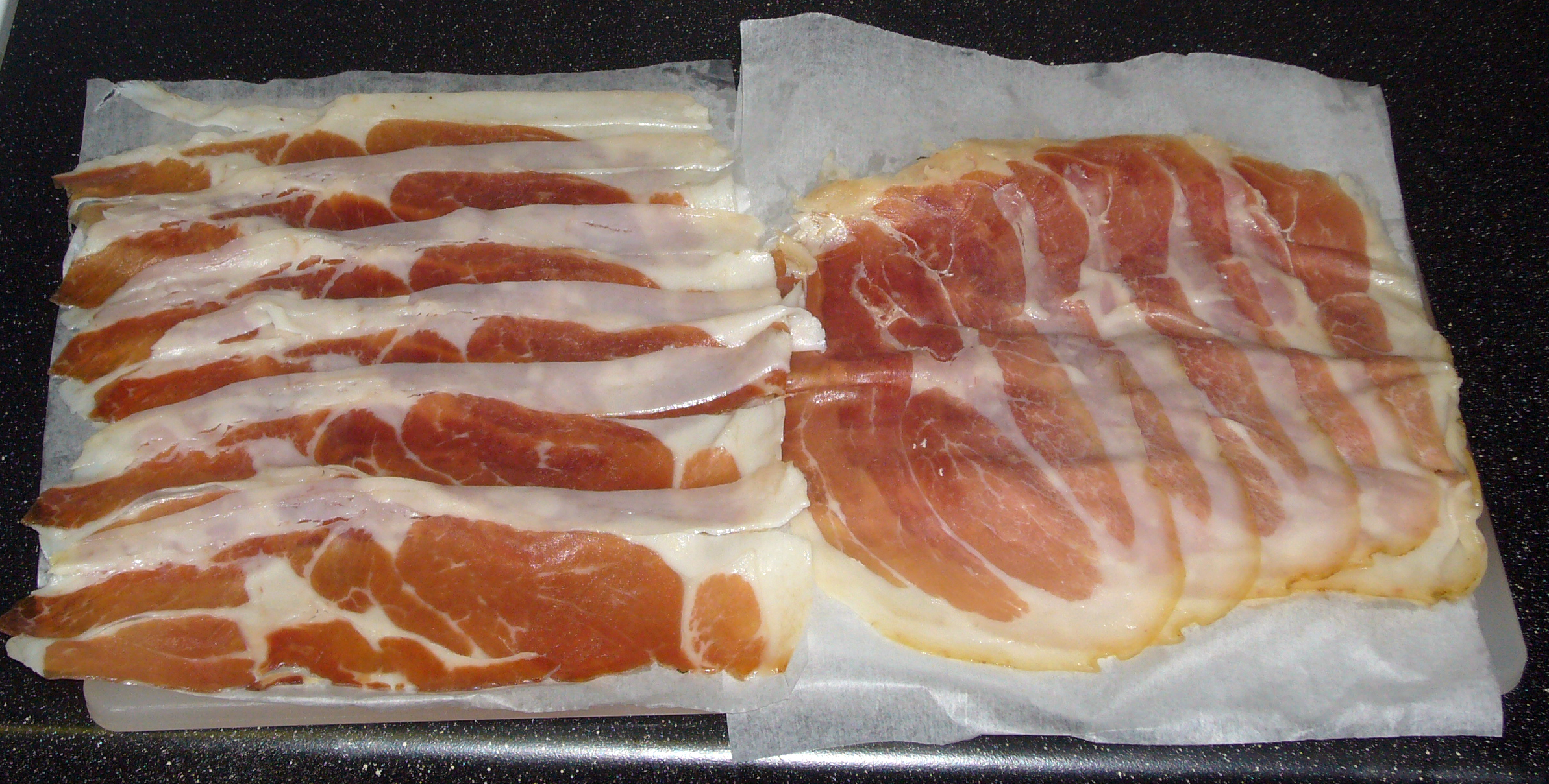 Fresh slices of San-Daniele-Ham. Left side: regular grade Right side: "secola blue label" (less salty, lighter color, higher quality)